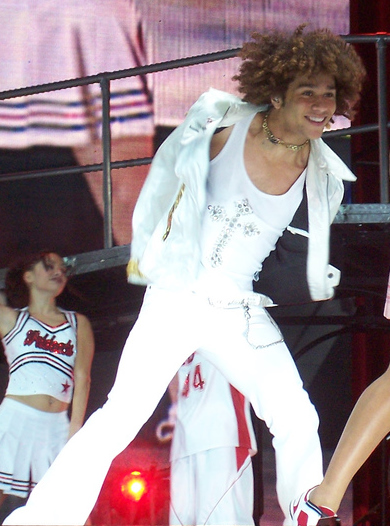 Corbin Bleu cropped.